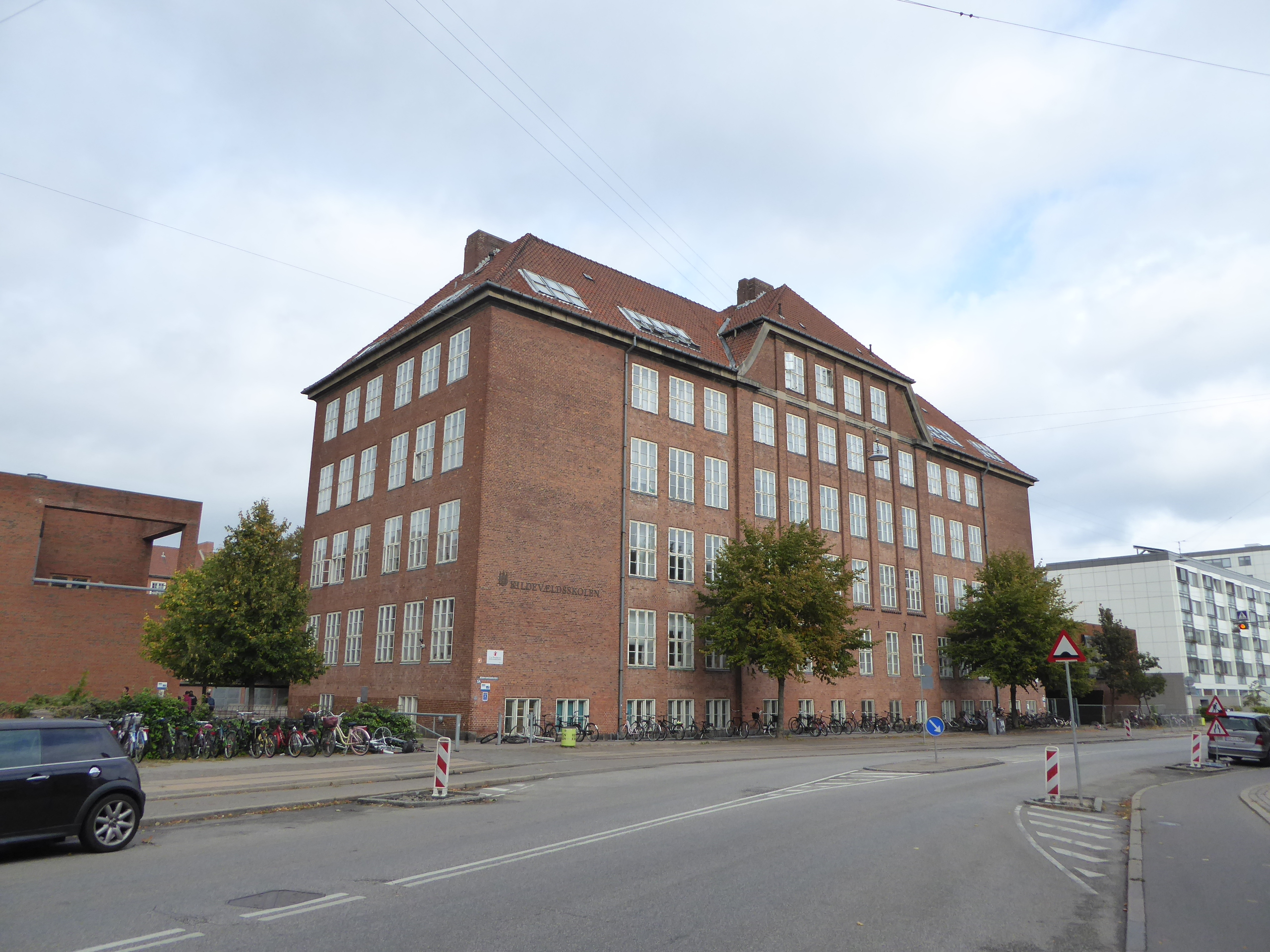 The school Kildevældsskolen at Bellmansgade in Østerbro in Copenhagen.